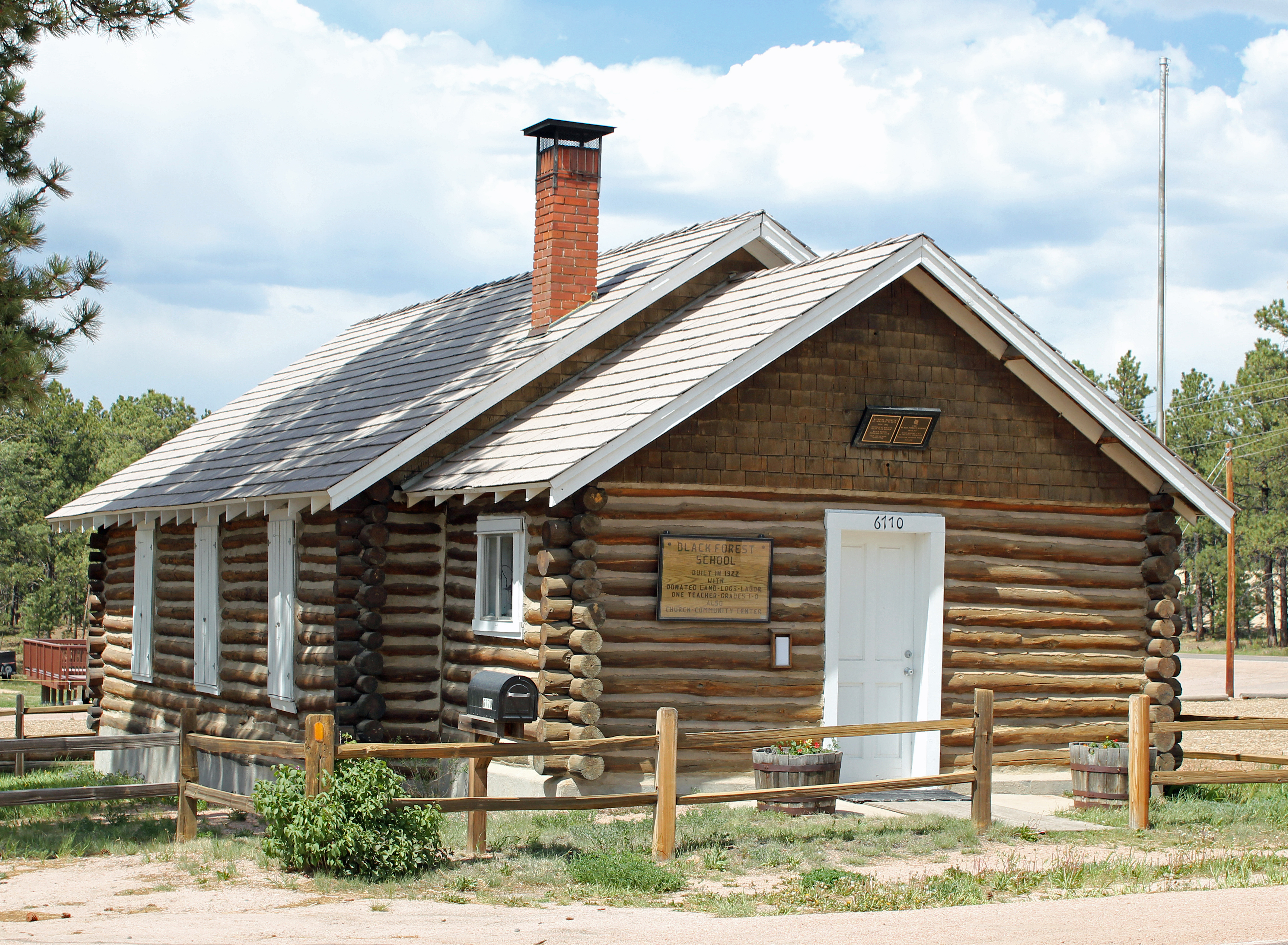 The Black Forest School, located at 6770 Shoup Road in Black Forest, Colorado Springs, Colorado. The property is listed on the National Register of Historic Places.